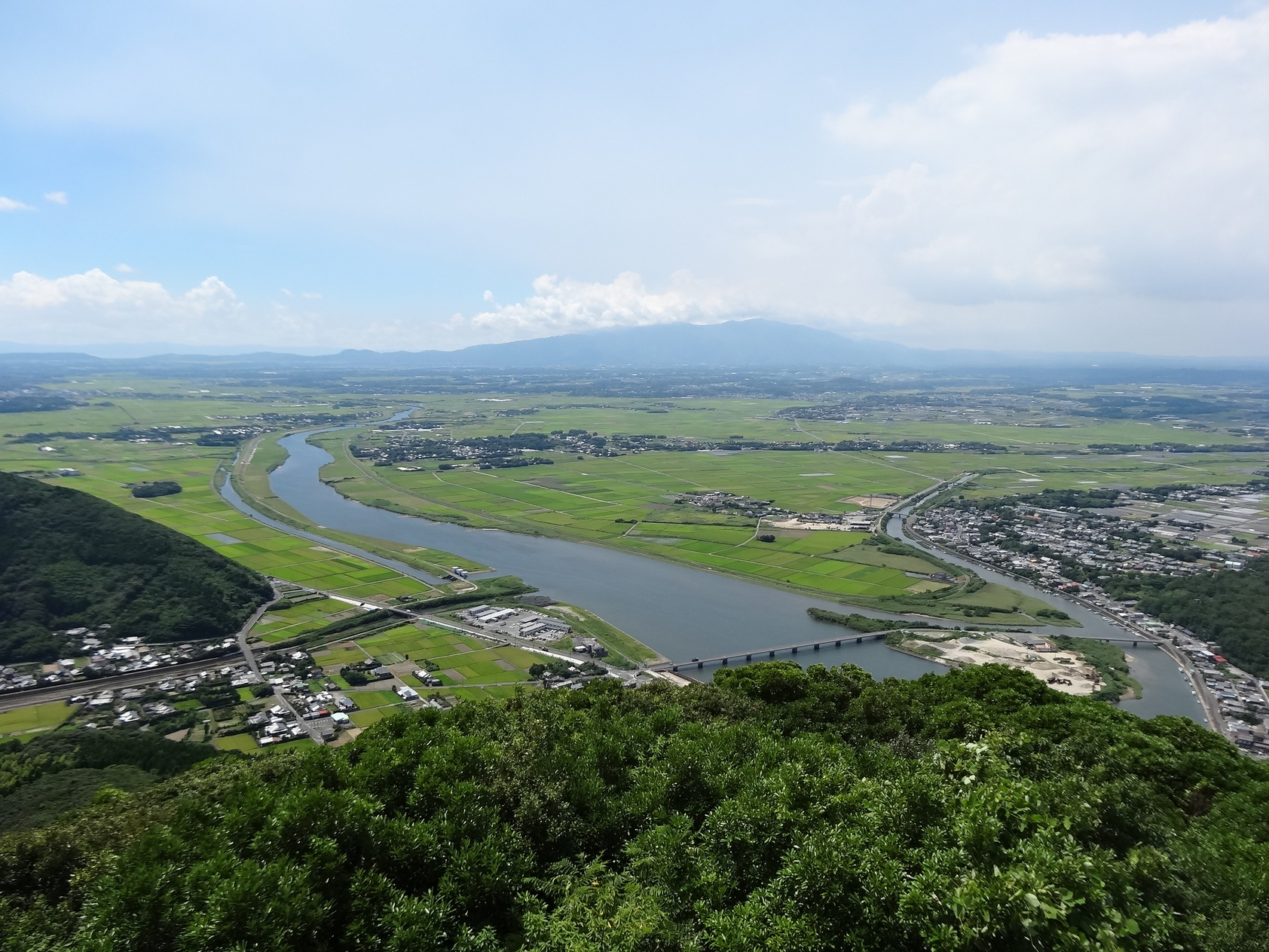 A Lower Kimotsuki River (Kagoshima Prefecture, Japan)